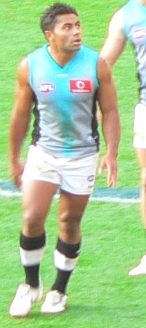 David Rodan, Aussie Rules player